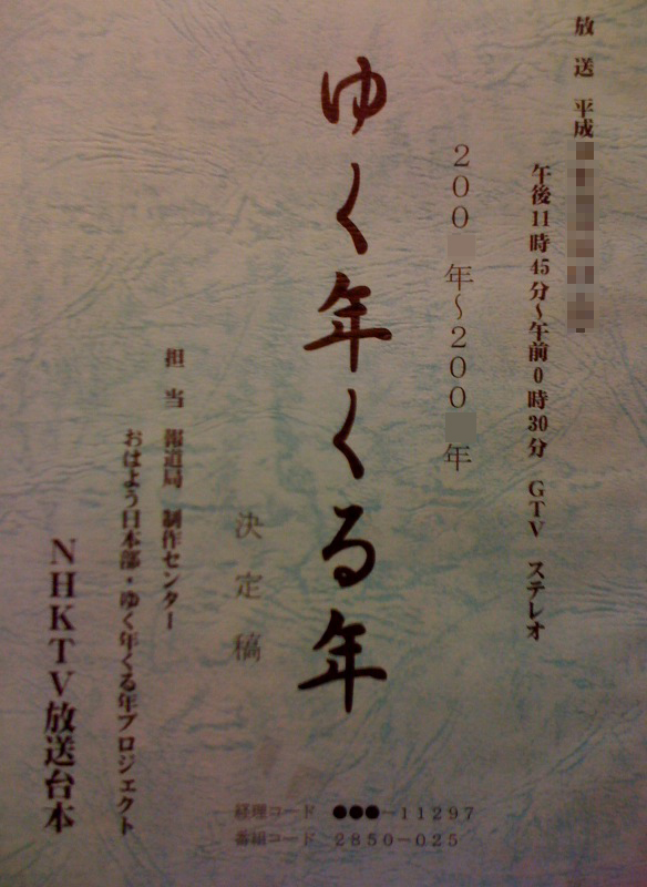 A script of NHK(Japan broadcasting Corp)'s "Yukutoshi Kurutoshi" A special program for new year's eve